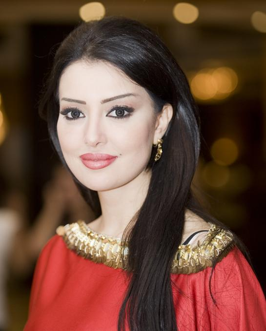 Morrocan Actor Maysa Maghribi.